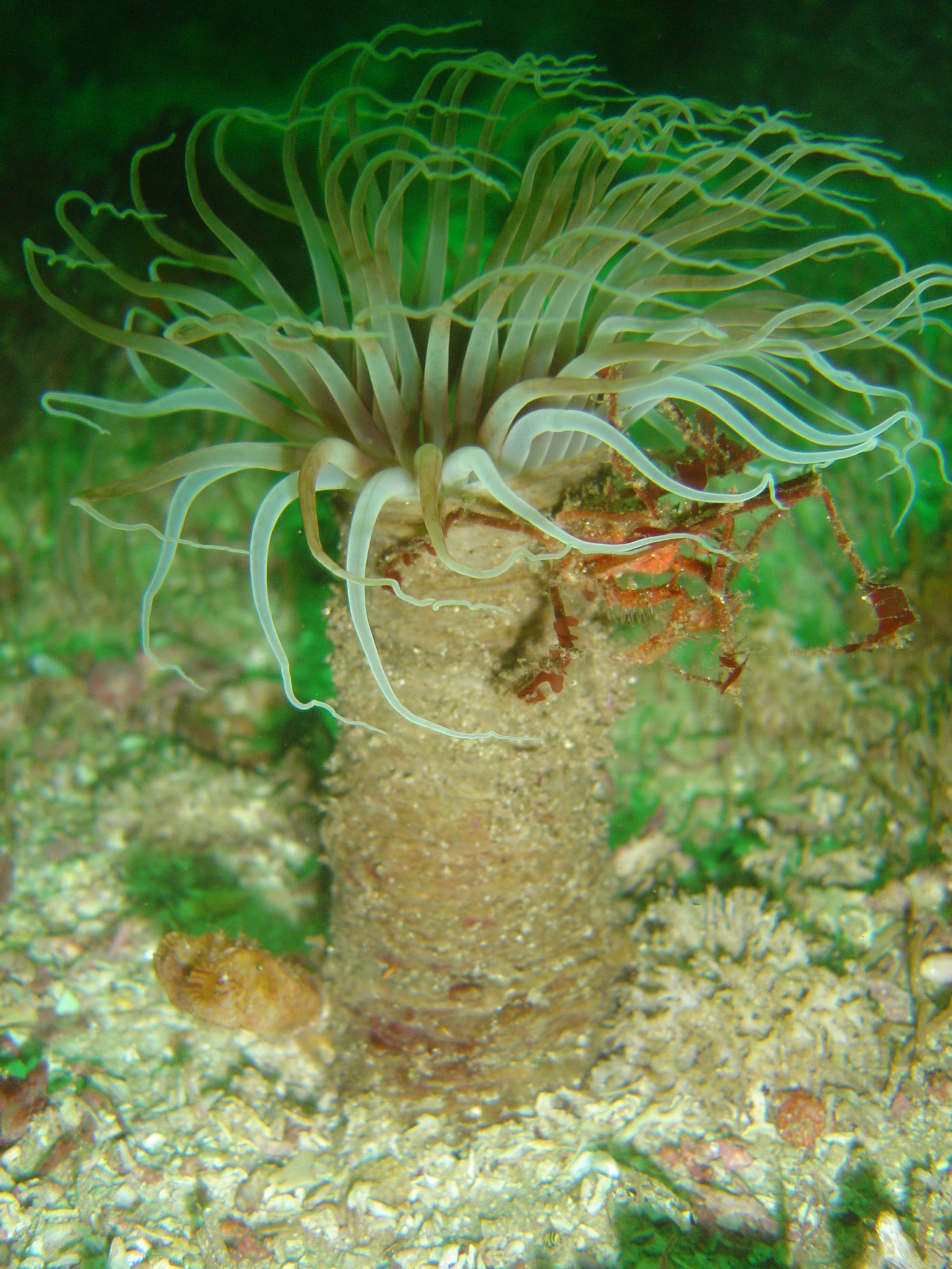 Simon's Town, Cape Peninsula.